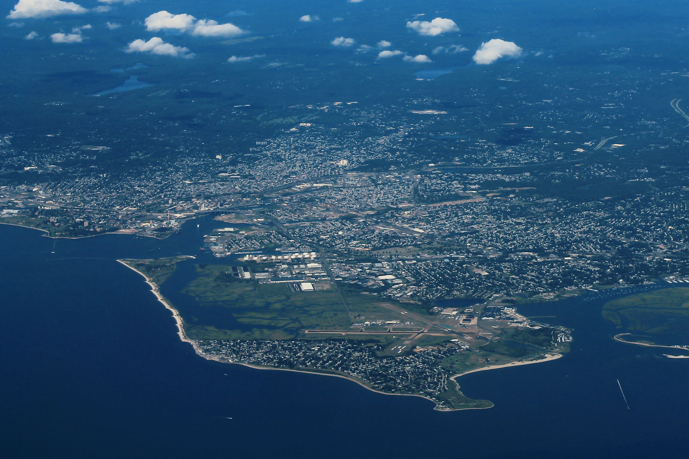 A aerial shot of Bridgeport